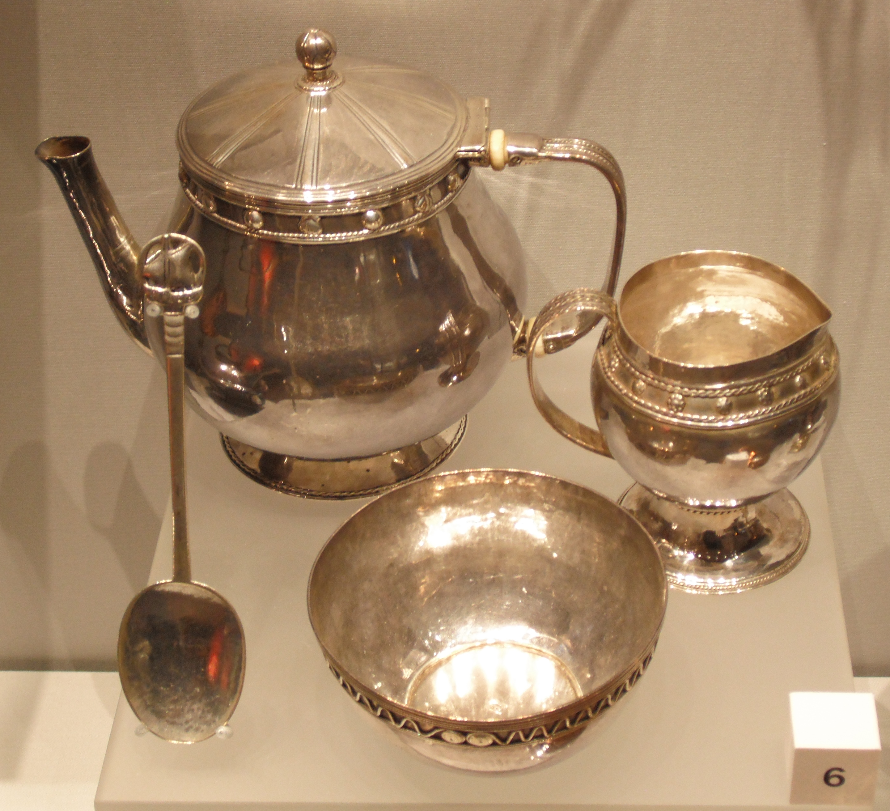 A tea service designed by John Paul Cooper, on display in the Higgins museum and gallery, Bedford.